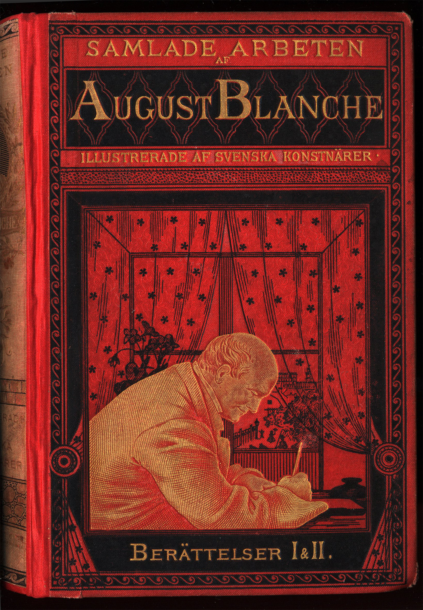 Cover of book: August Blanche: Samlade skrifter. Stockholm 1889